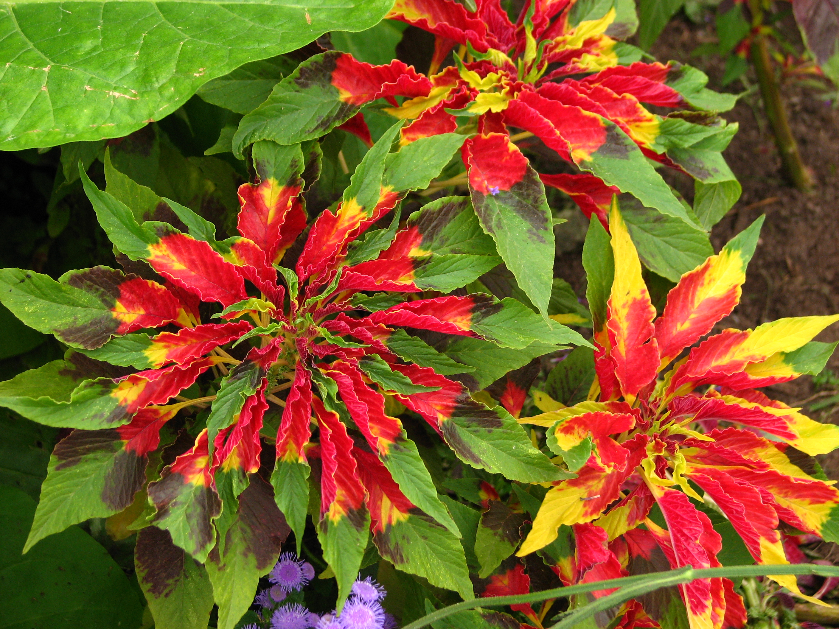 Flower beds in park Kolomenskoye (Moscow).